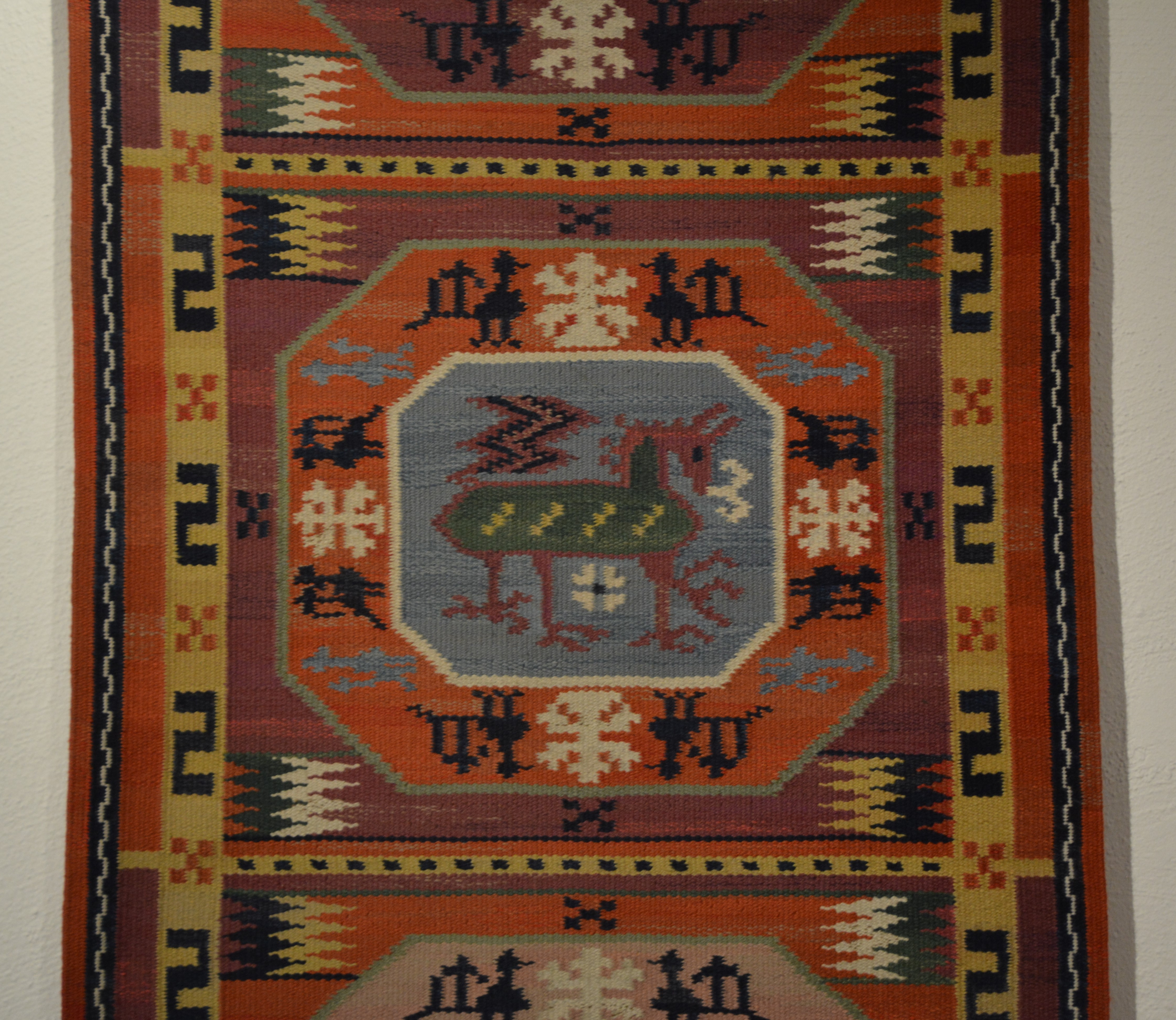 Matta av Märta Måås-Fjetterström